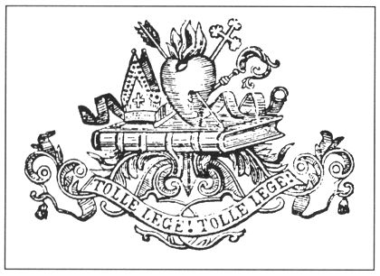 Seal of the Order of Saint Augustin, from the Constitution printed in Rome, 1931